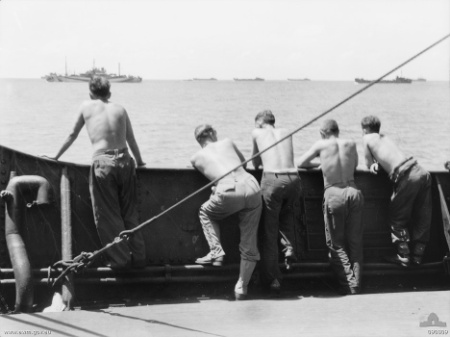 AWM Caption: AT SEA, MOROTAI - TARAKAN. 1945-04-28. TROOPS OF 2/48 INFANTRY BATTALION AT THE RAIL OF THE MANOORA, WATCHING PART OF THE CONVOY ON THE FIRST DAY OUT FROM MOROTAI.